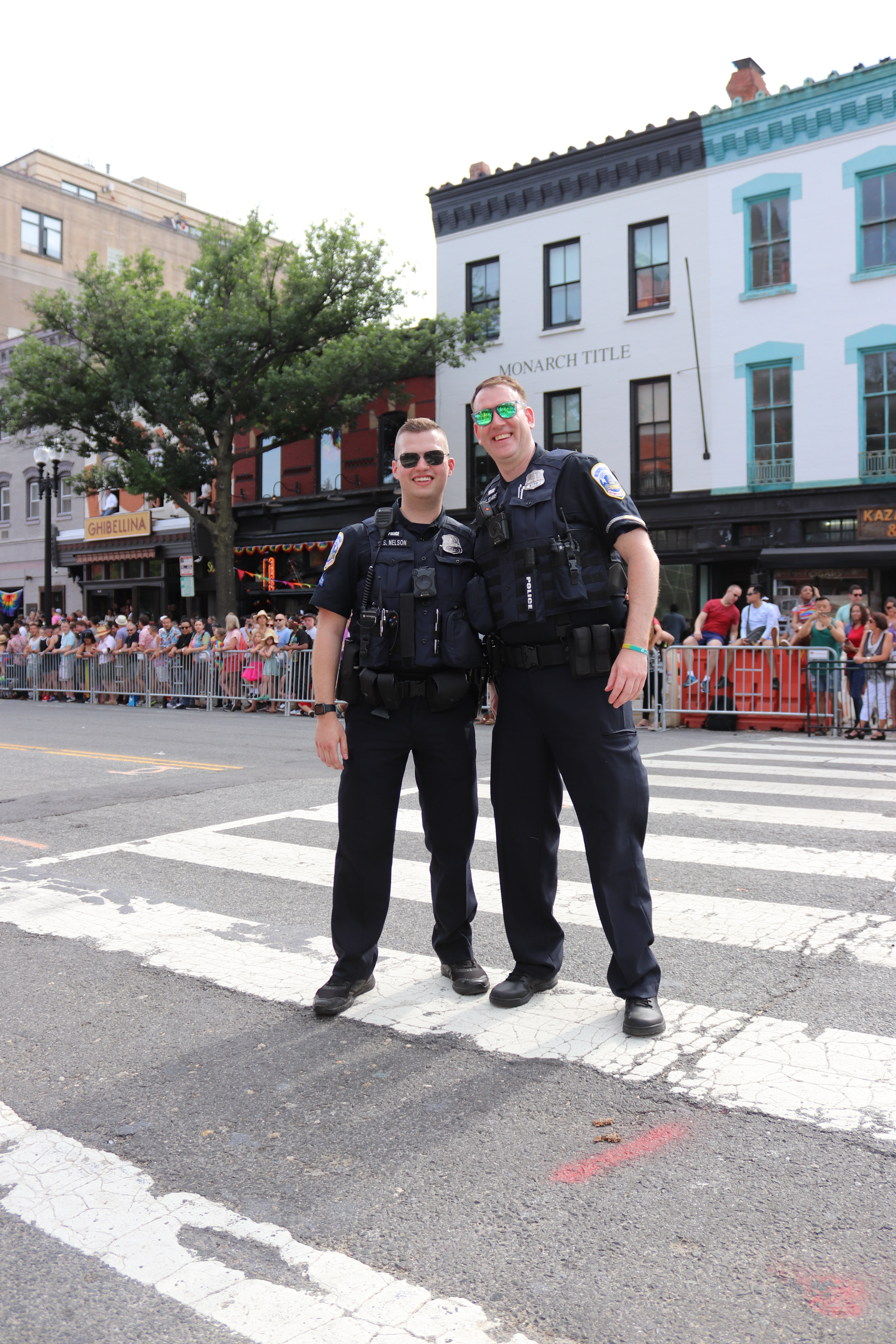 44th Capital Pride Parade March at 14th and Q Street, NW, Washington DC on Saturday evening, 8 June 2019 by Elvert Barnes Photography MPDC Officers _ S. Nelson and Scooter Slade Elvert Barnes WASHINGTON DC GAY PRIDE 2019 at